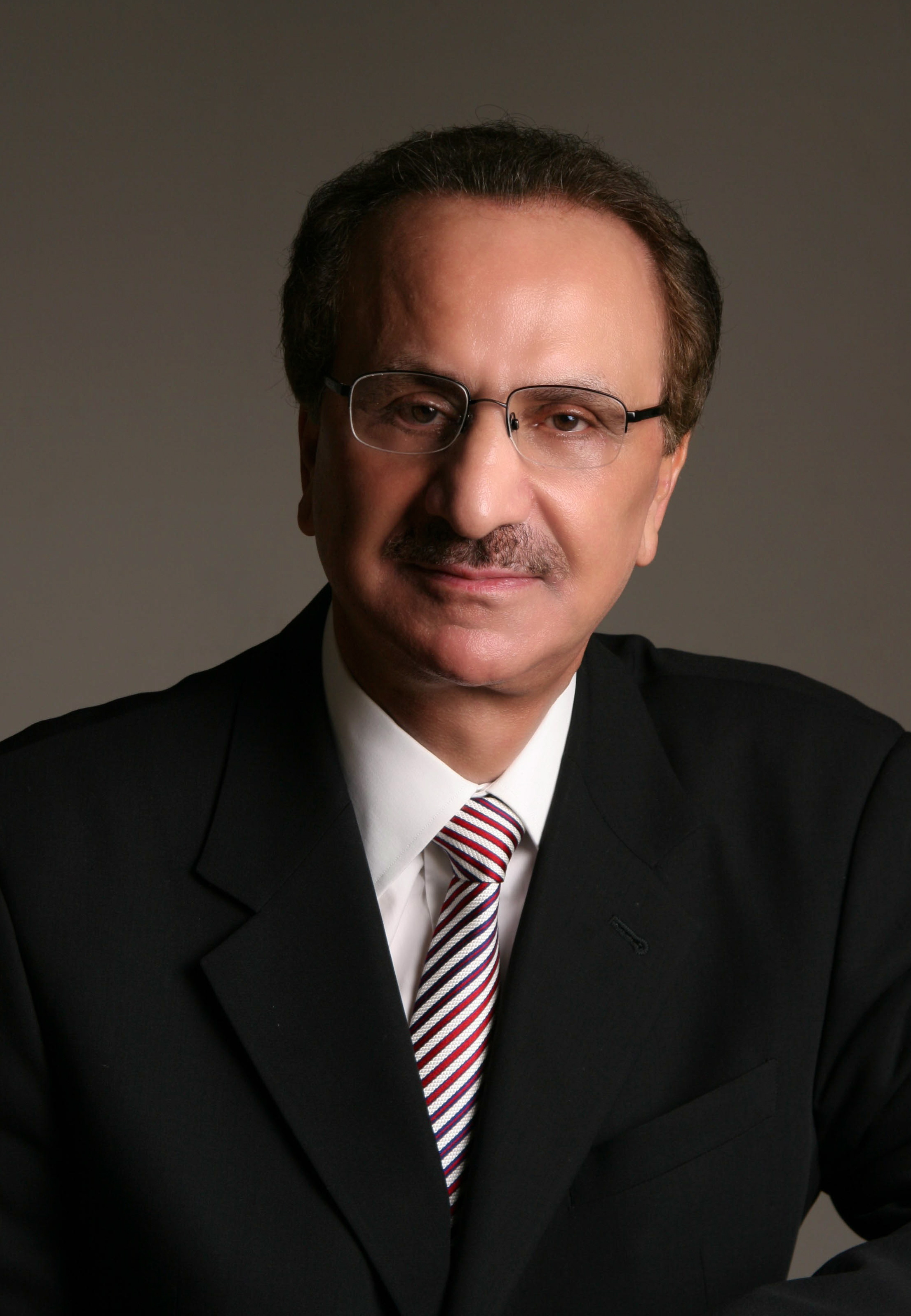 Profile Picture